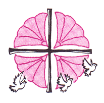 Logo of All Souls’ Church, Cameron Highlands.